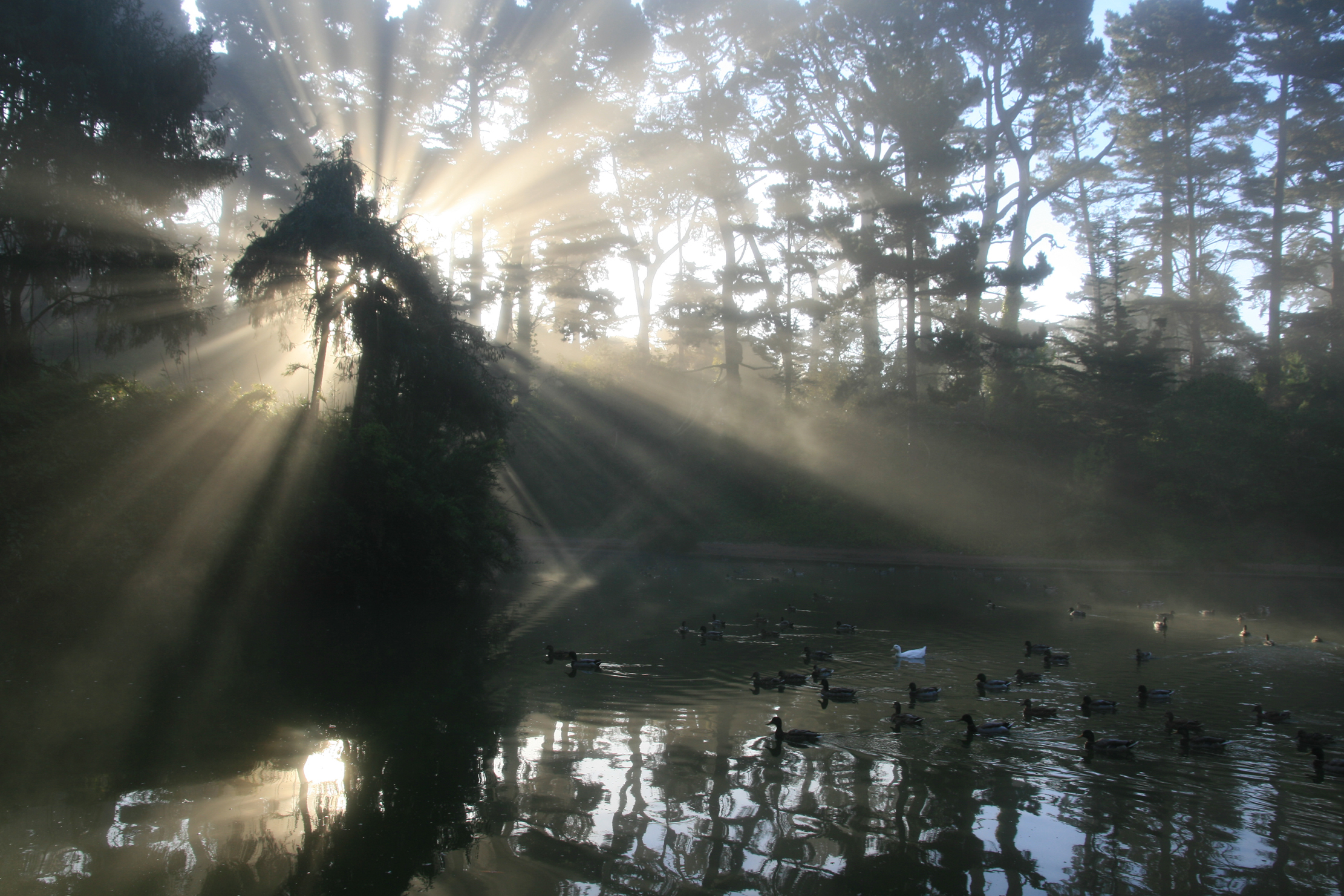 Crepuscular Rays. In the middle of the image one could also see a different set of the rays coming upward from the lake. The light source for these rays is the Sun's reflection. The image was taken at Lloyd Lake in Golden Gate Park, San Francisco.